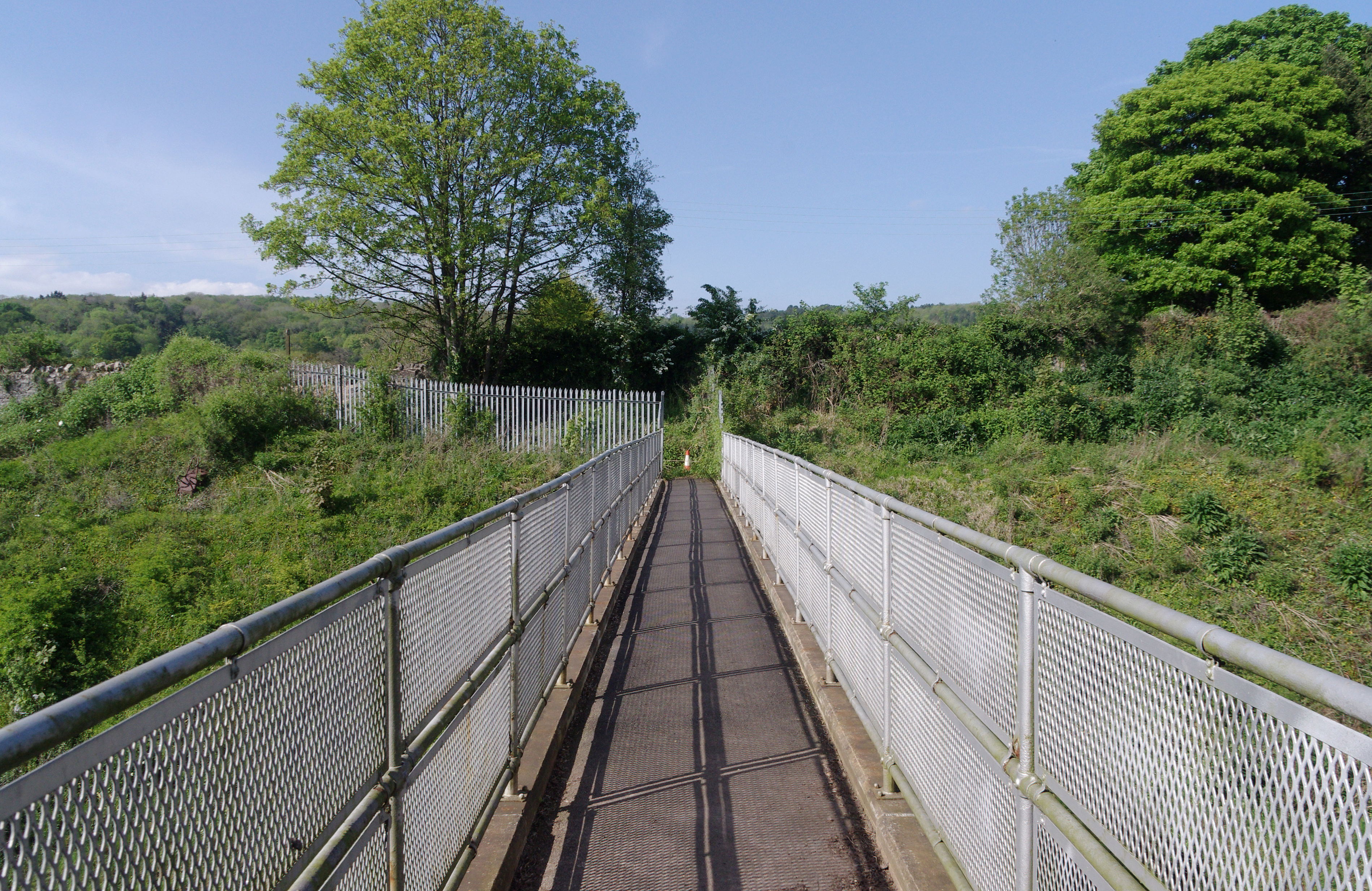 Footbridge over the Bristol to Exeter Line at Flax Bourton.